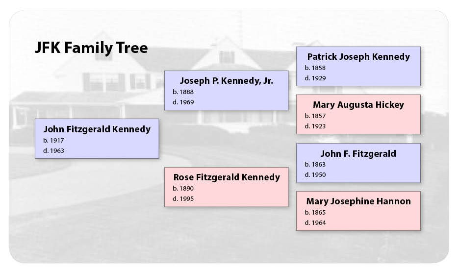 An example of a typical family tree, using data from the famous Kennedy family of the United States.